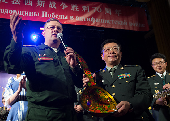 Military orchestras of the Western MD and the People’s Liberation Army of China took part in the joint concert within the closing ceremony of the Week of Chinese Culture in Saint Petersburg.